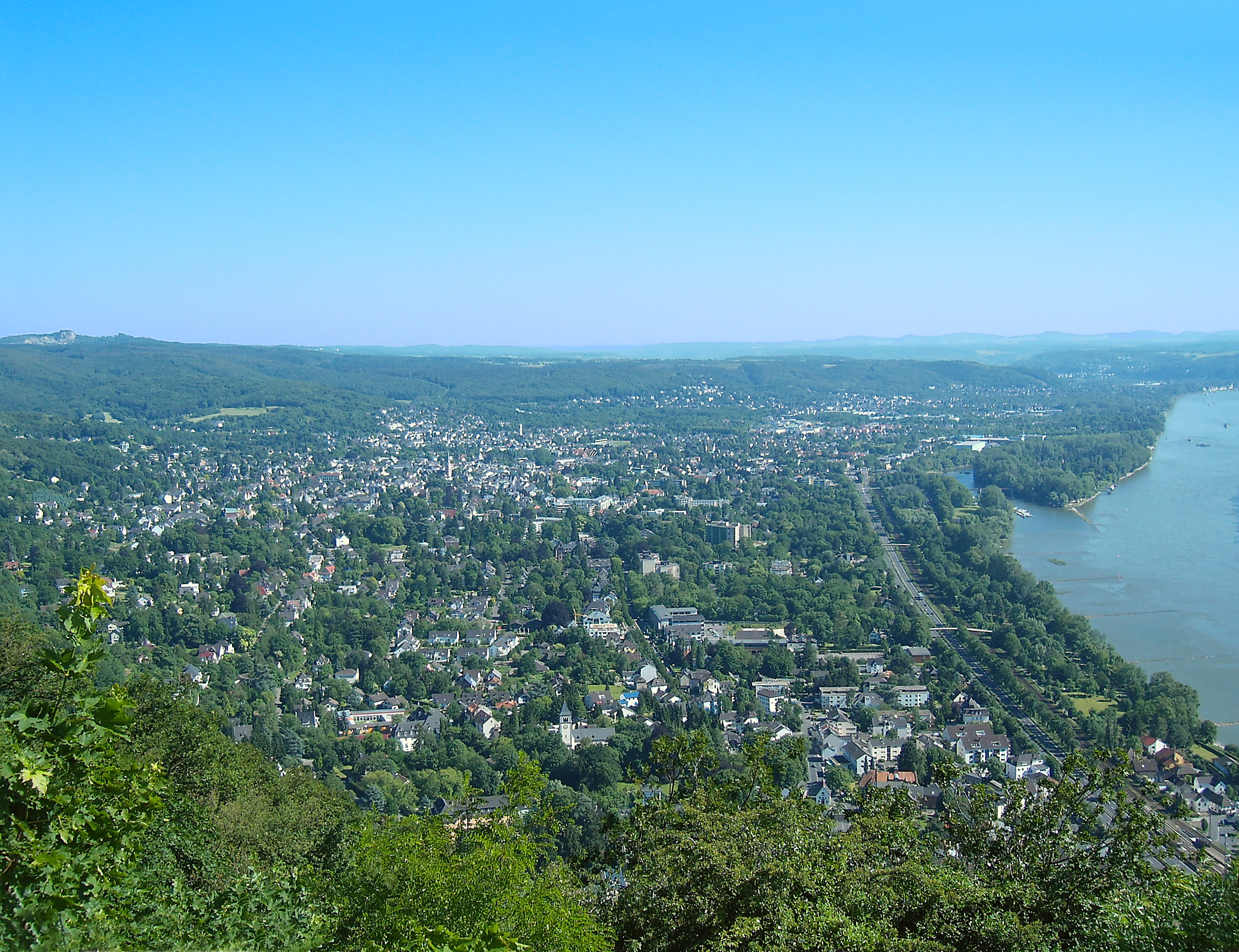 Bad Honnef seen from the Drachenfels (“Dragon's Rock”).